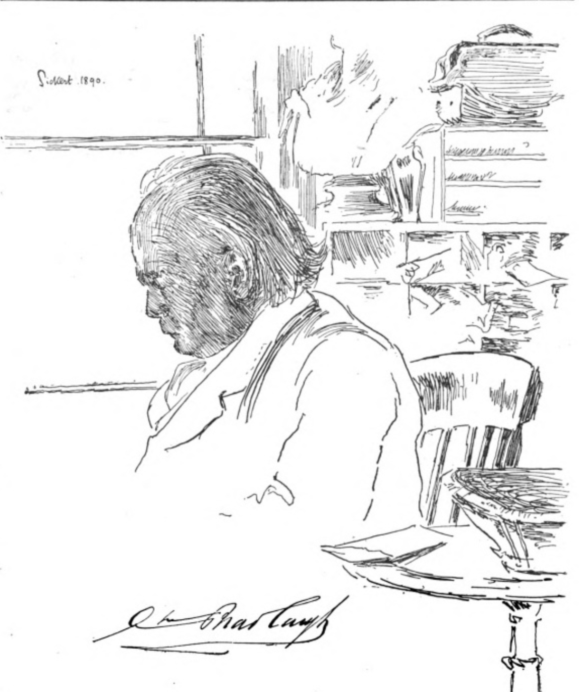 A cartoon of the MP Charles Bradlaugh, drawn by artist Walter Sickert